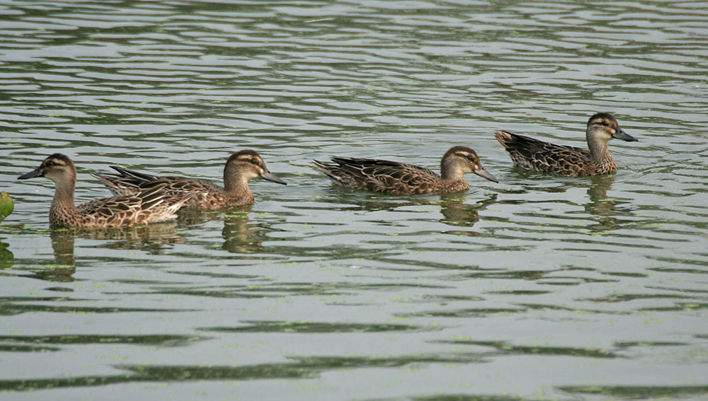 Garganey Anas querquedula in Uppalapadu, Andhra Pradesh, India.